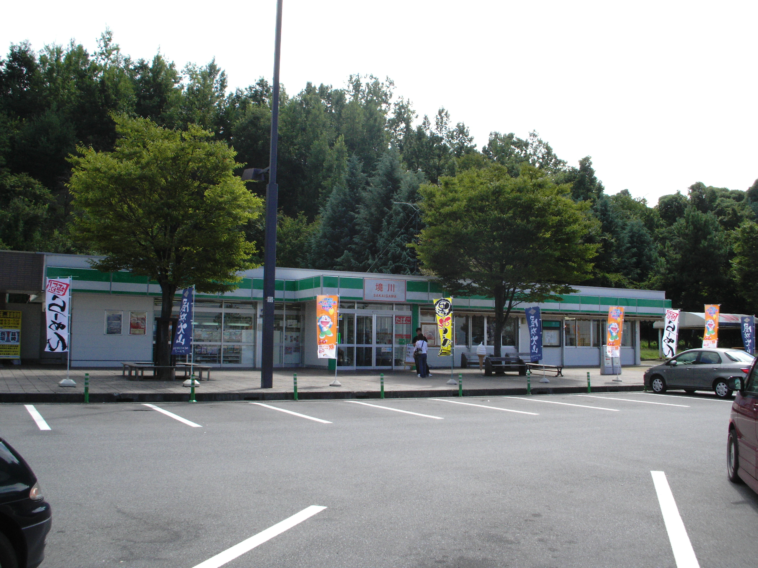 Chuo Expressway Sakaigawa Parking Area